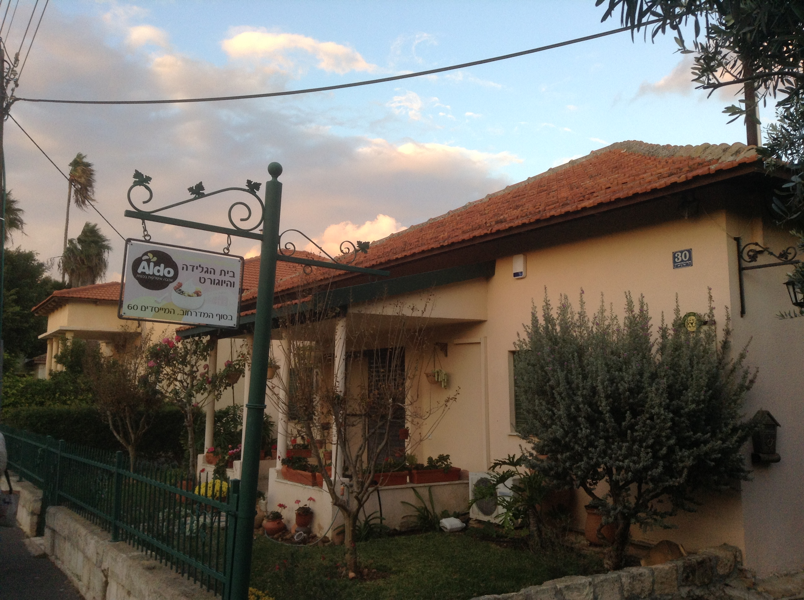 Zikhron Ya'akov